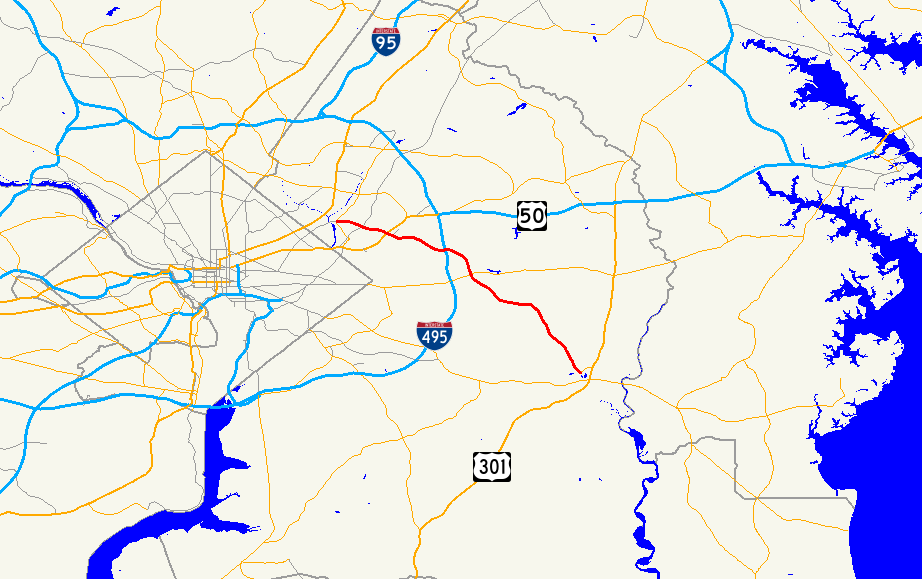 Map of Maryland Route 202